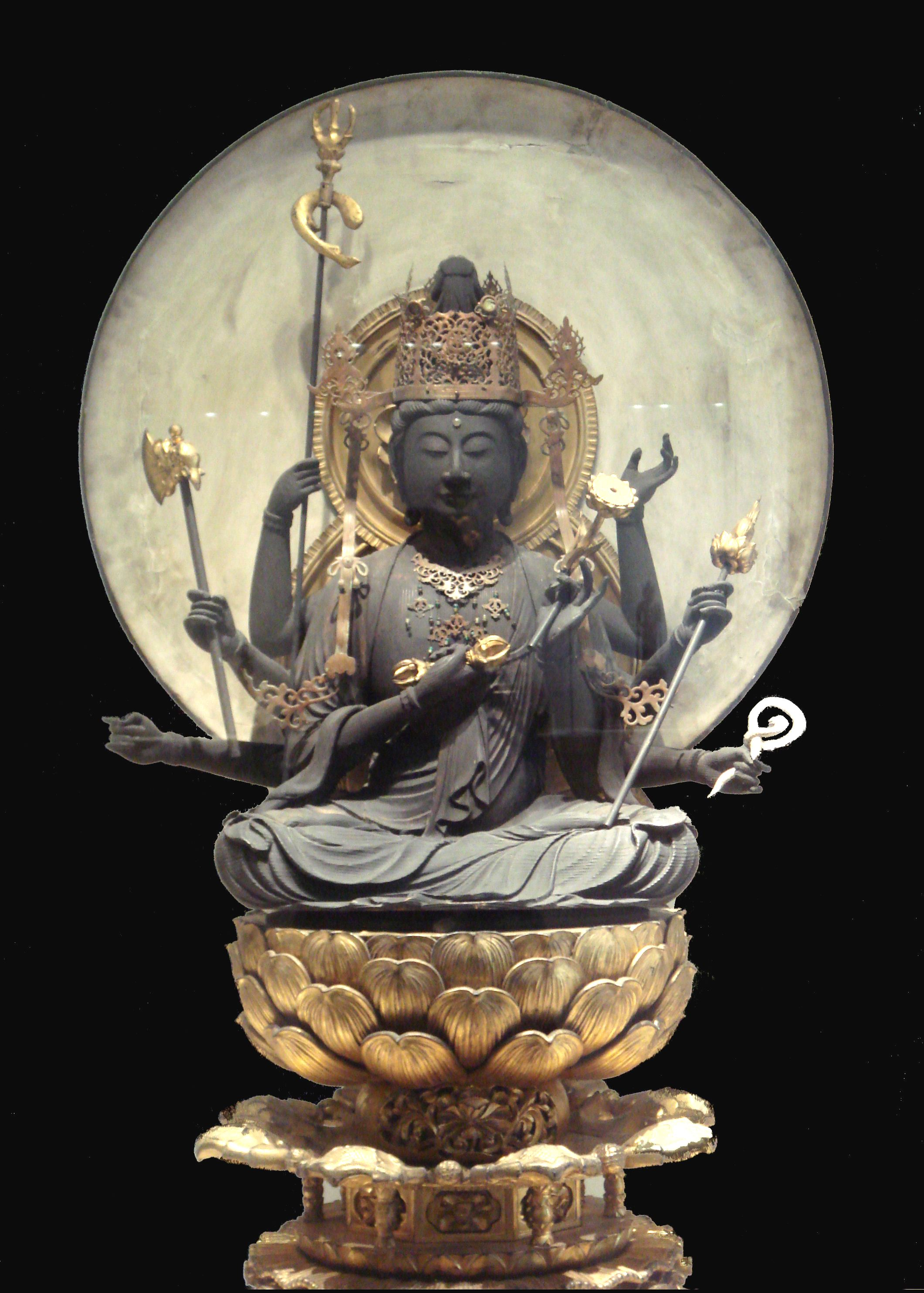 Daizuigu_Mahapratisara